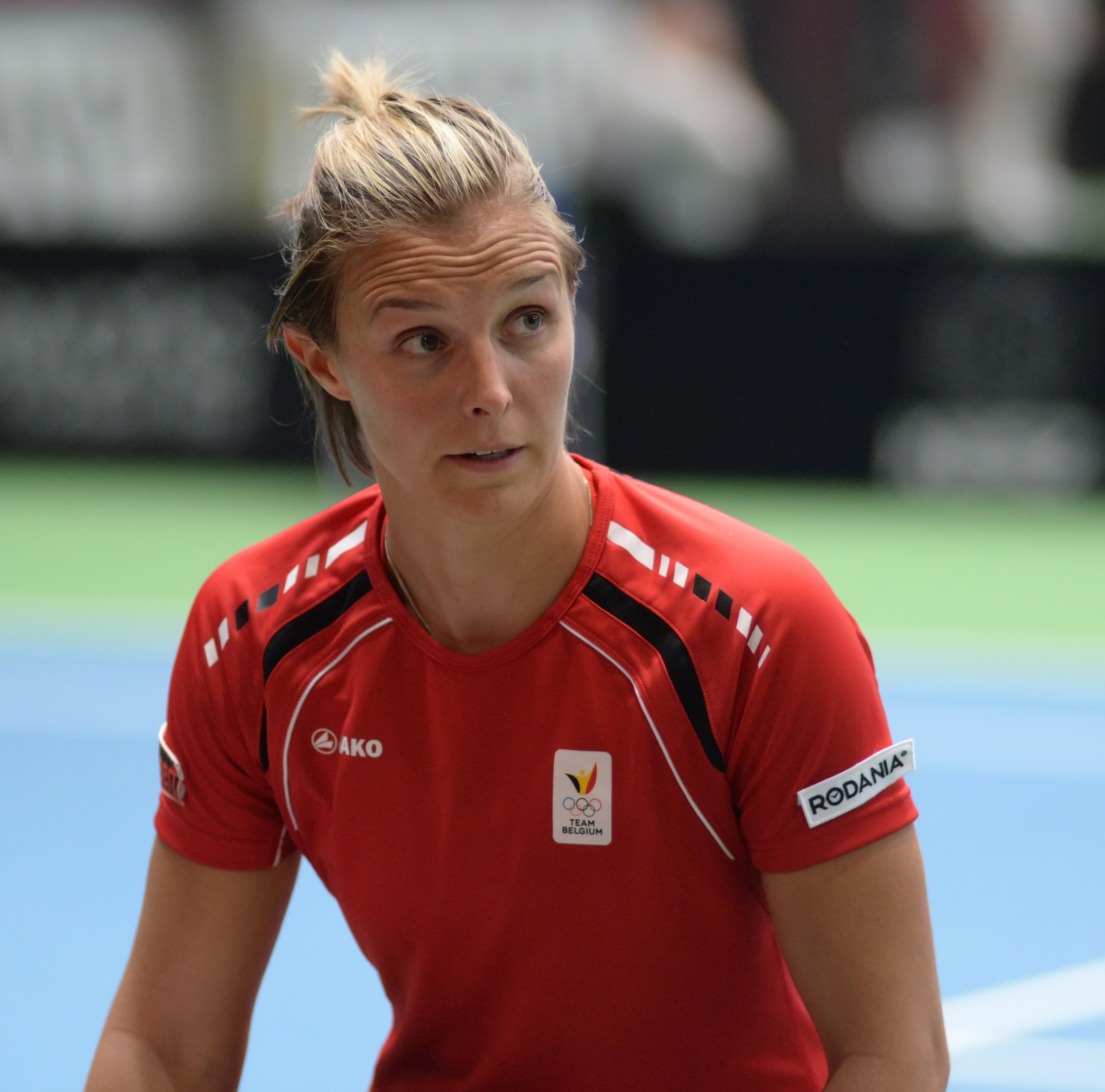 Kirsten Flipkens at the 2015 Fed Cup